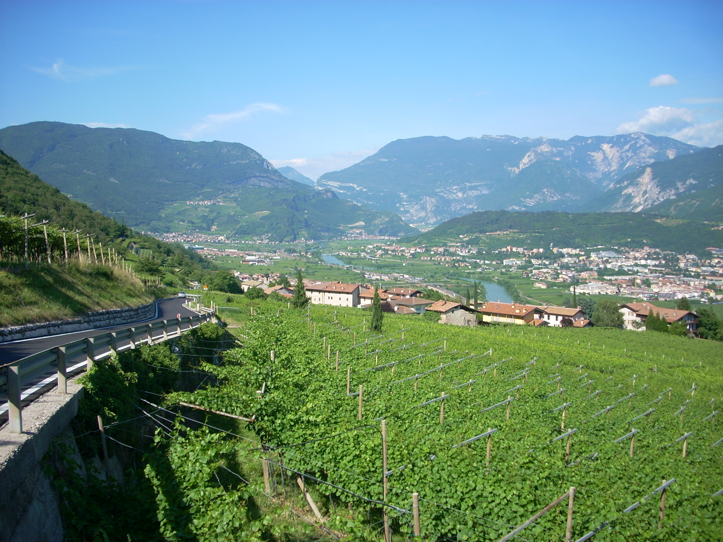 View of the Vallagarina (Province of Trento, Italy)